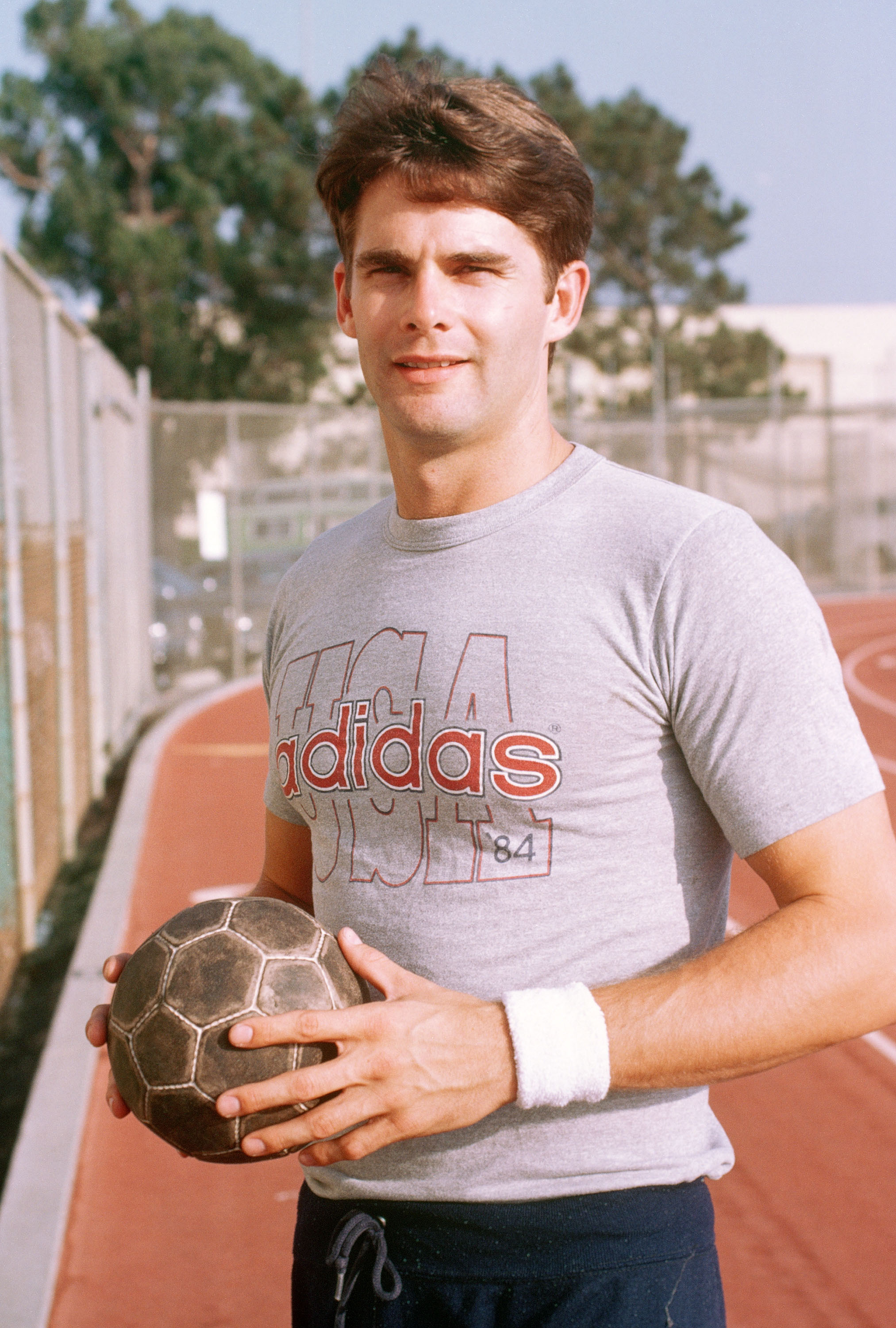 Army Captain Craig T. Gilbert from Fort Dix, New Jersey, a member of the handball team competing at the 1984 Summer Olympics.